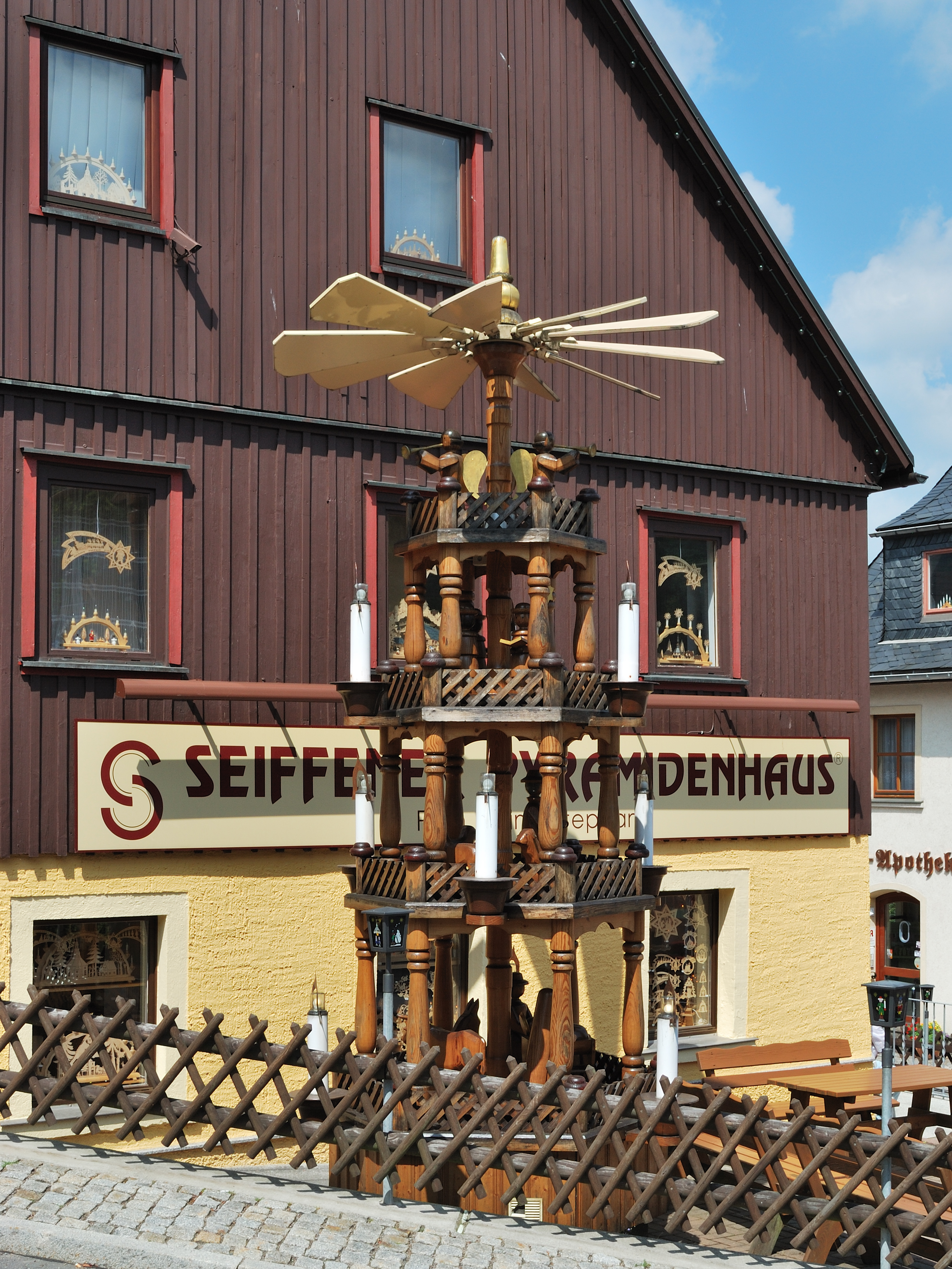 The Pyramidenhaus in Seiffen, a town in the heart of the Erzgebirge, or the Ore Mountains, in Saxony in Germany.